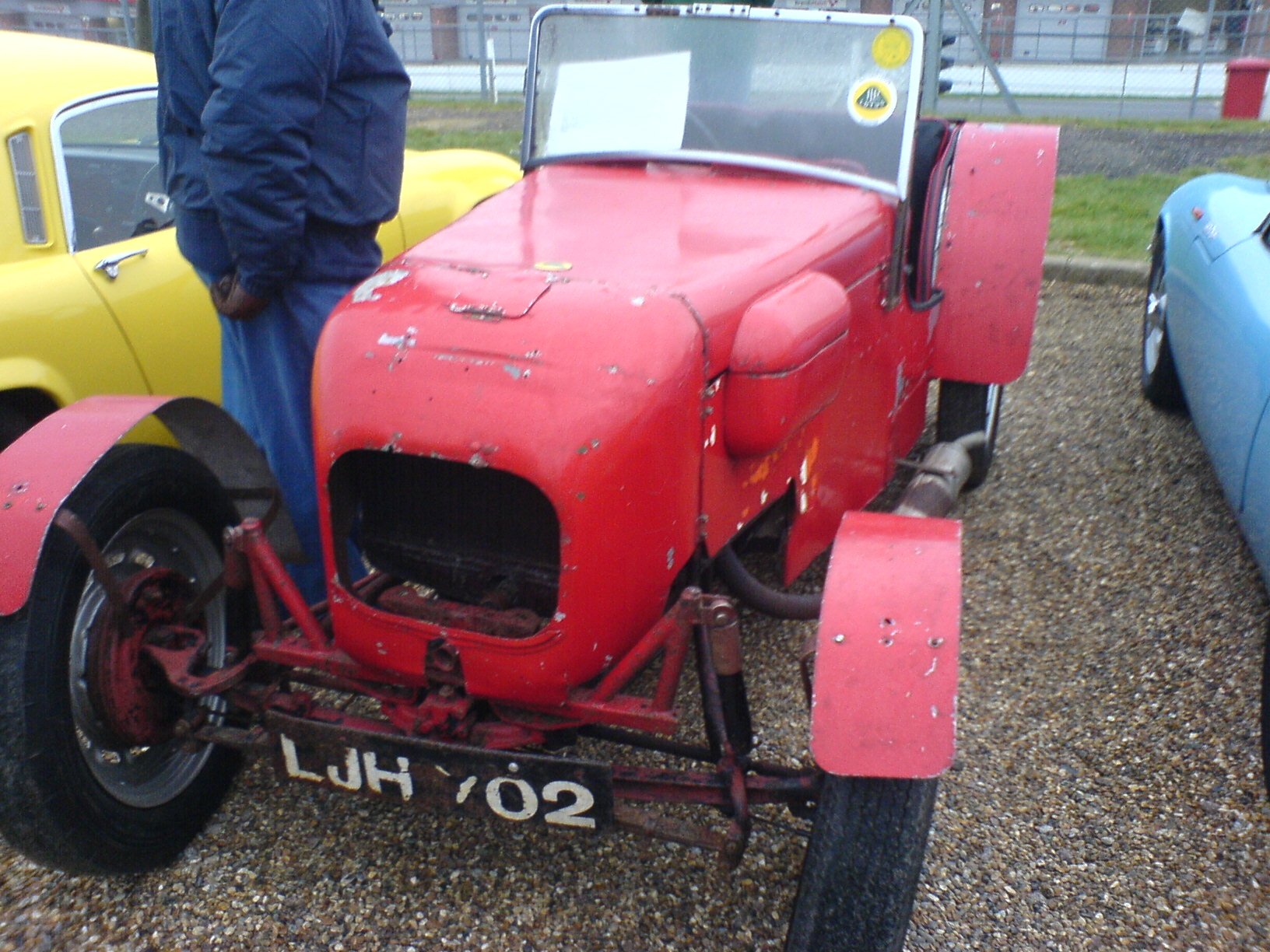 Lotus Mk 2 at Brands Hatch at the Lotus Brands Hatch Celebration 2007